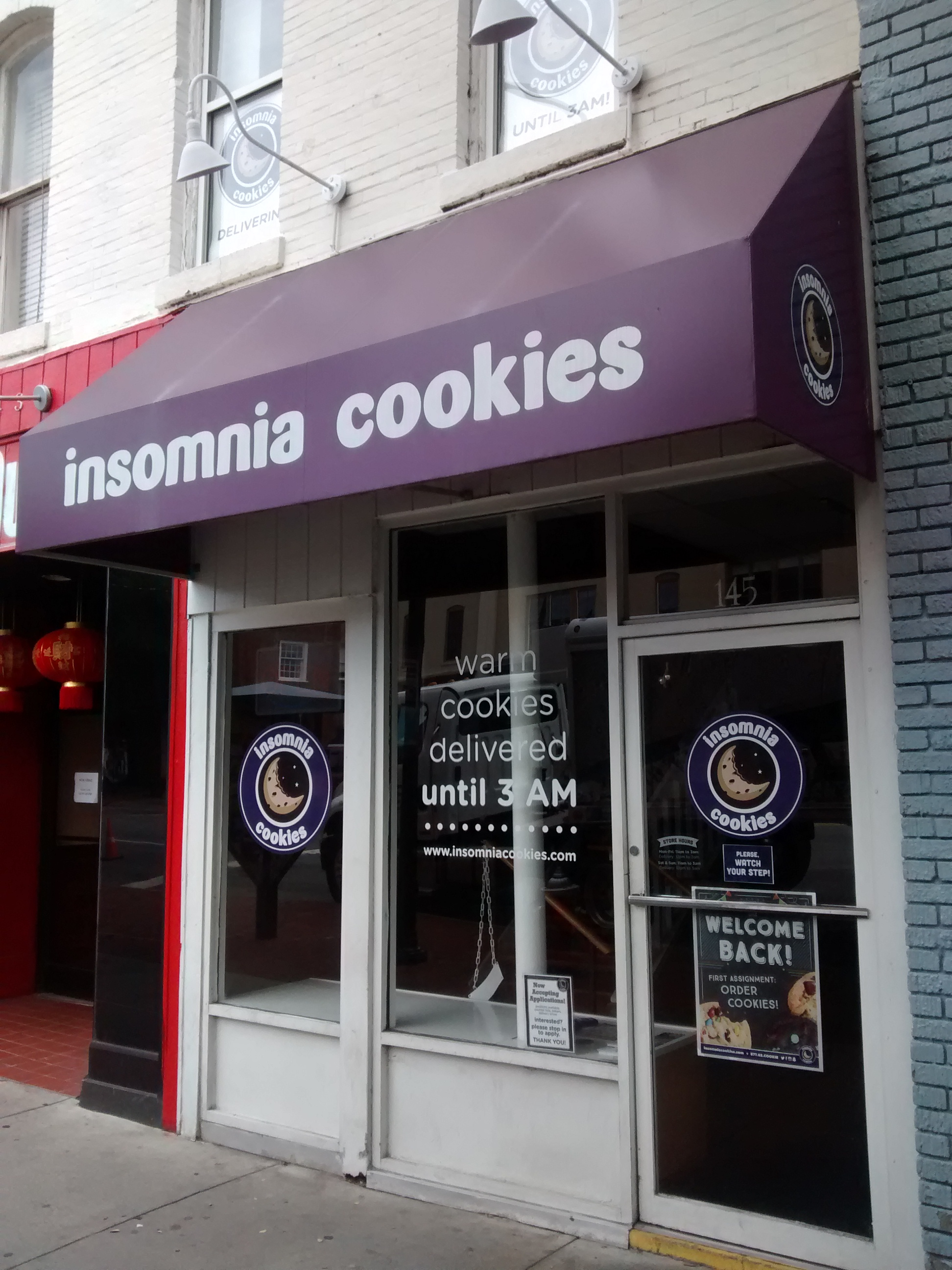 Chapel Hill, North Carolina branch of Insomnia Cookies.